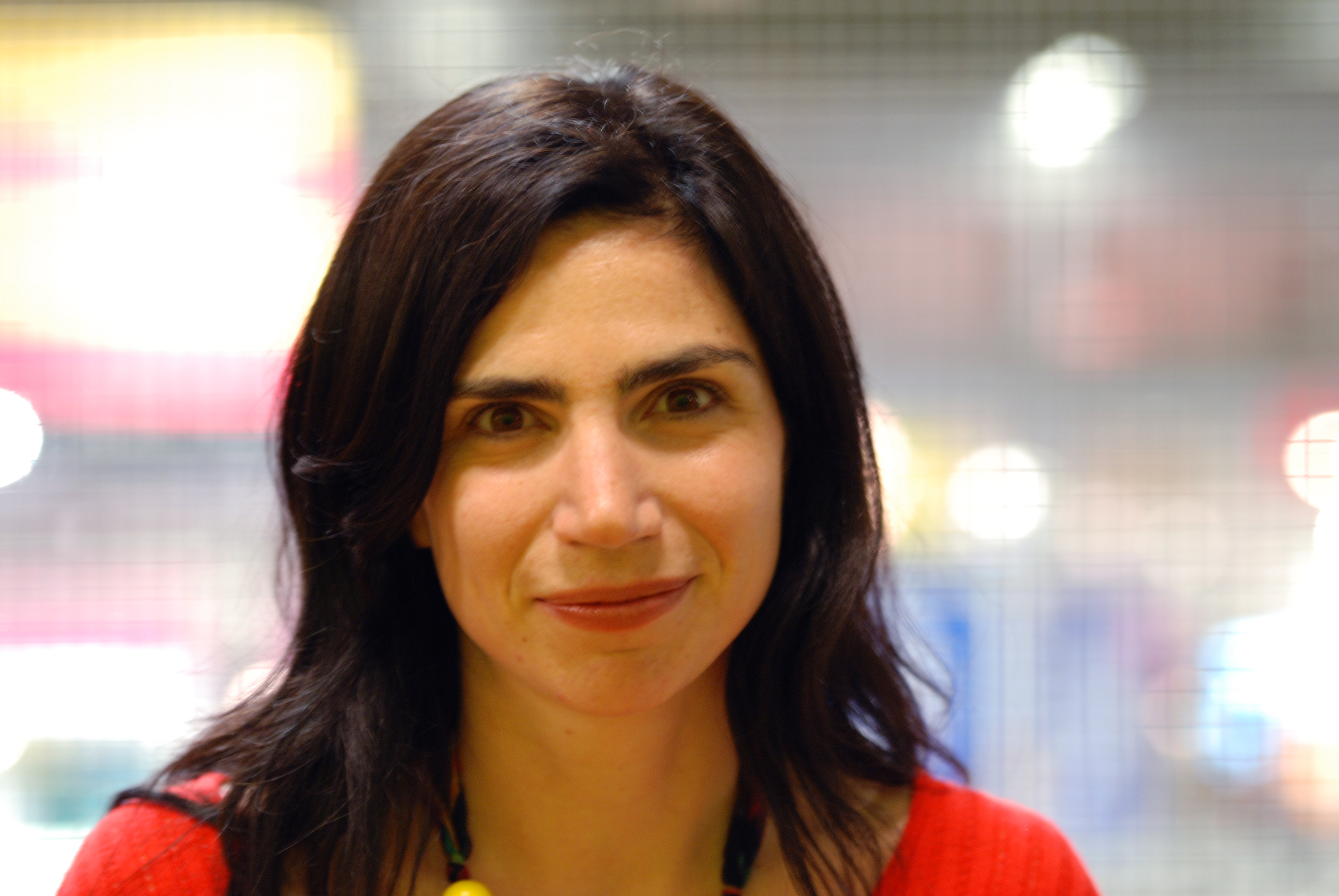 The Romanian author Dana Grigorcea at Göteborg Book Fair 2013.